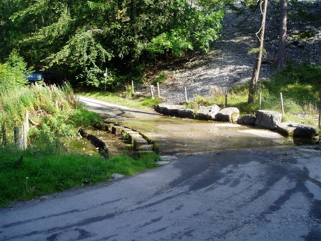 Stream at World's End. The stream runs over the road at World's End, near Llangollen.